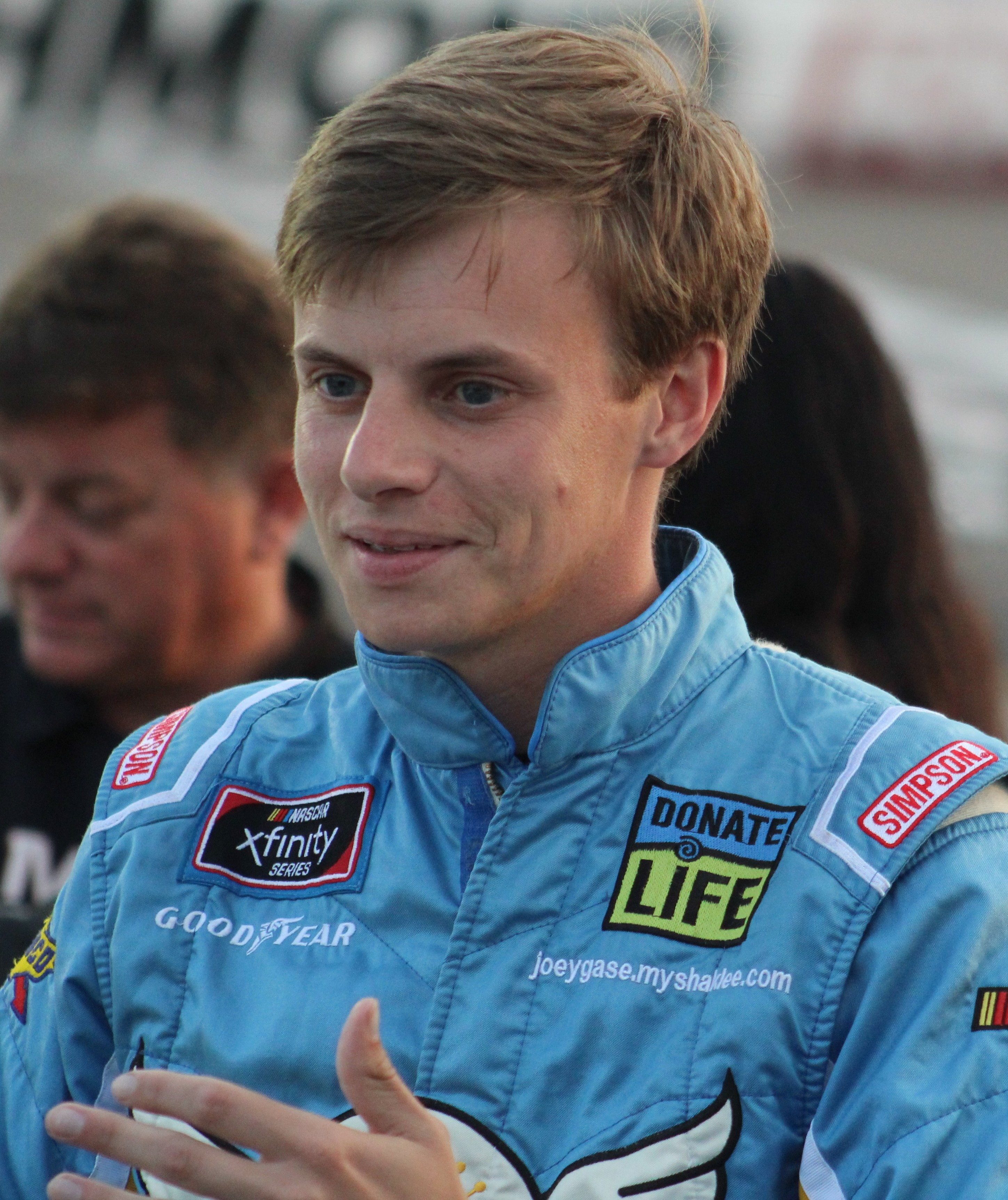 2019 Toyota Owners 400